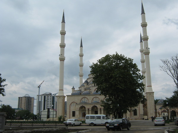 The mosque is located in the city of Gudermes